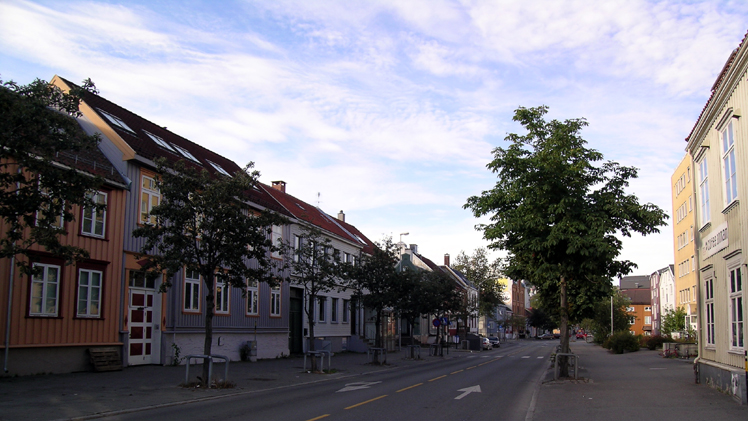 Sandgata, Trondheim, Norway.